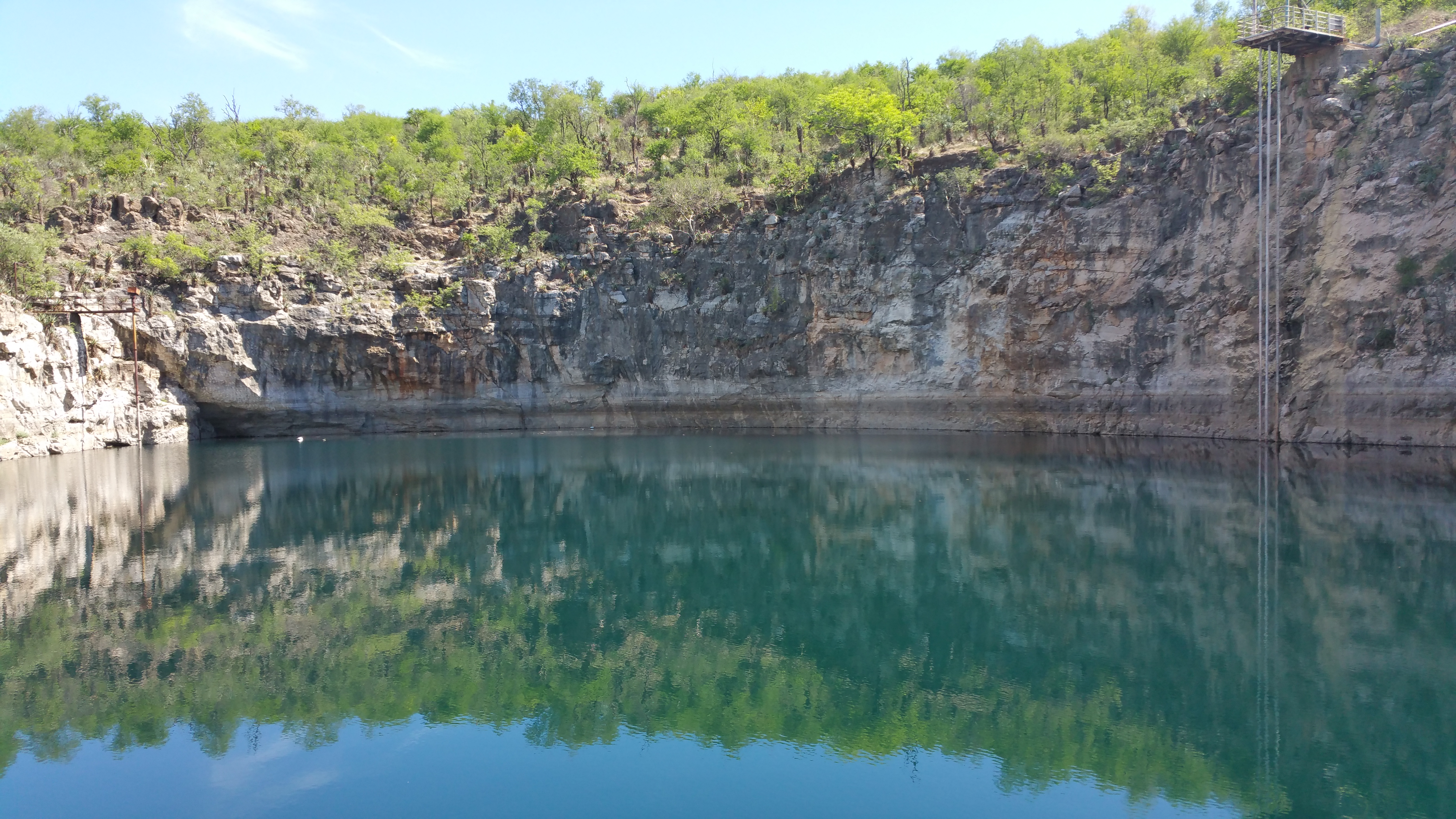 The guinas lake from above